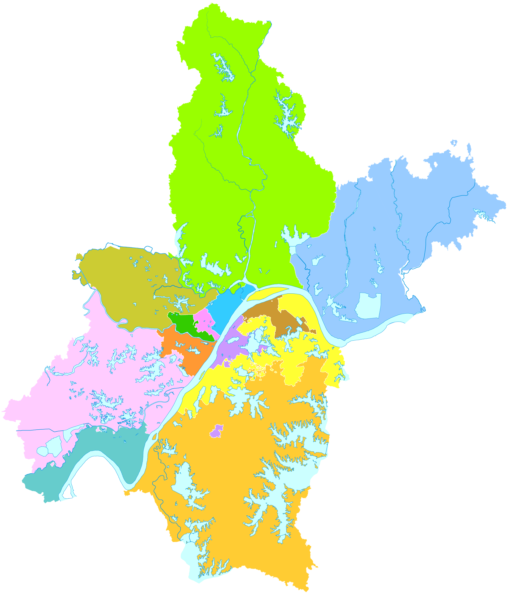 administrative divisions of Wuhan City, Hubei, China